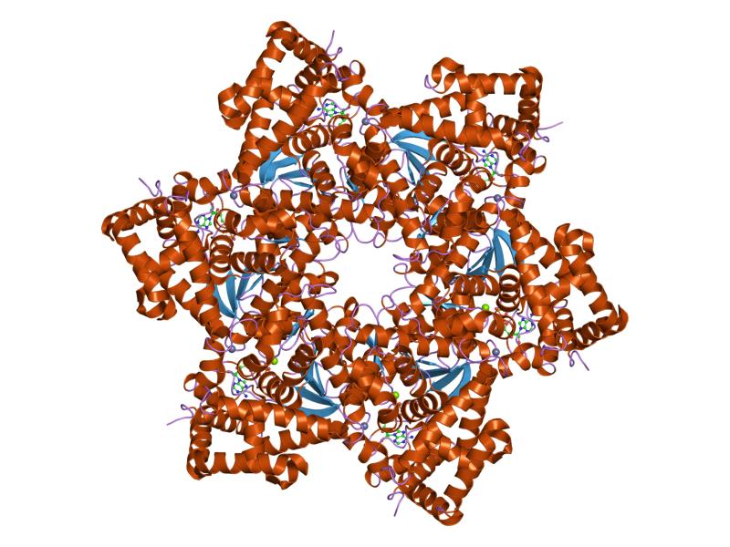 Cartoon representation of the molecular structure of protein registered with 1svm code.